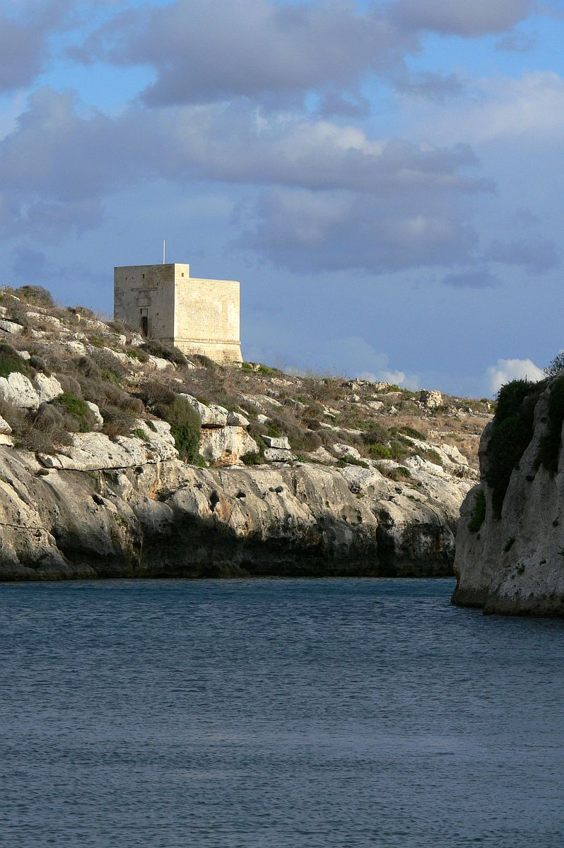 The bay and tower of Mġarr ix-Xini, Gozo, Malta